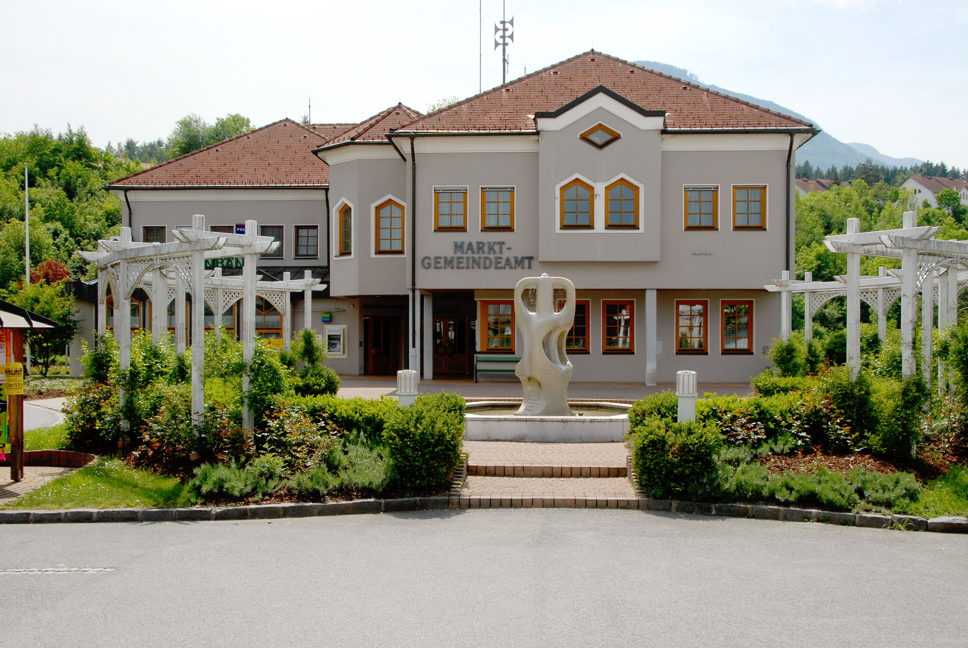 Municipal office in Feistritz im Rosental, district Klagenfurt Land, Carinthia, Austria, EU }